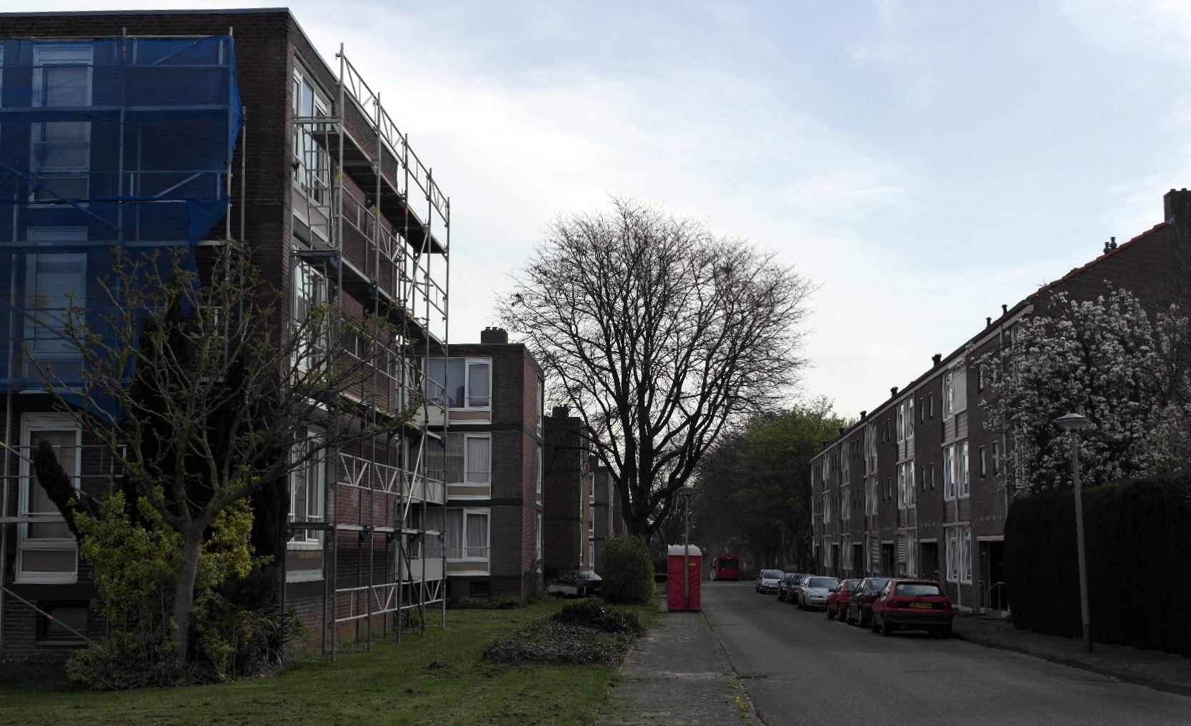 Maastricht, the Netherlands. View of typical late 1950s, early 1960s apartment blocks in Roemerstraat in the Maastricht-West neighbourhood of Pottenberg. The blocks on the left were designed by Swinkels-Salemans in 1960.